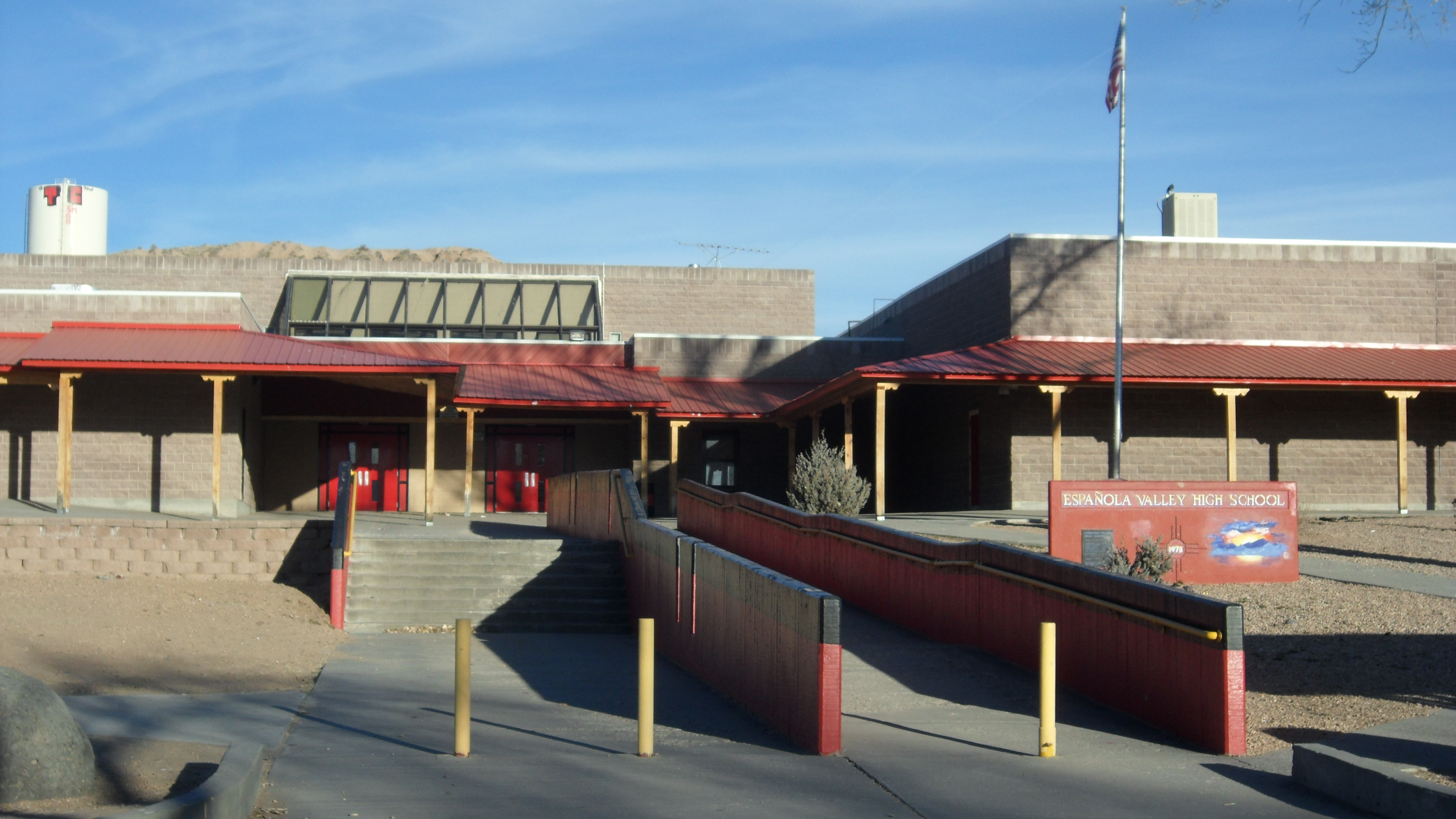 Main Entrance of Española Valley High School located at; 1111 El Llano Road Española, NM 87533